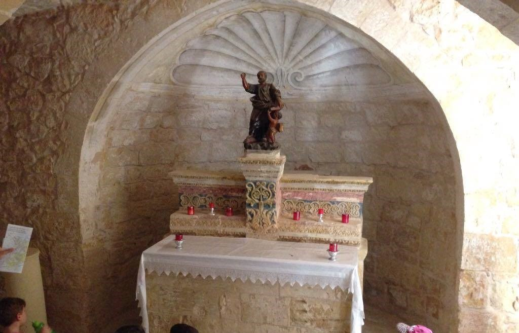 The interior of the small chapel of St Matthew in Maqluba, Qrendi, Malta.